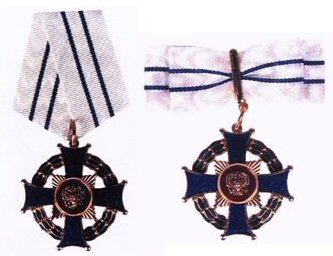 Small badges of the Russian Order of Parental Glory.